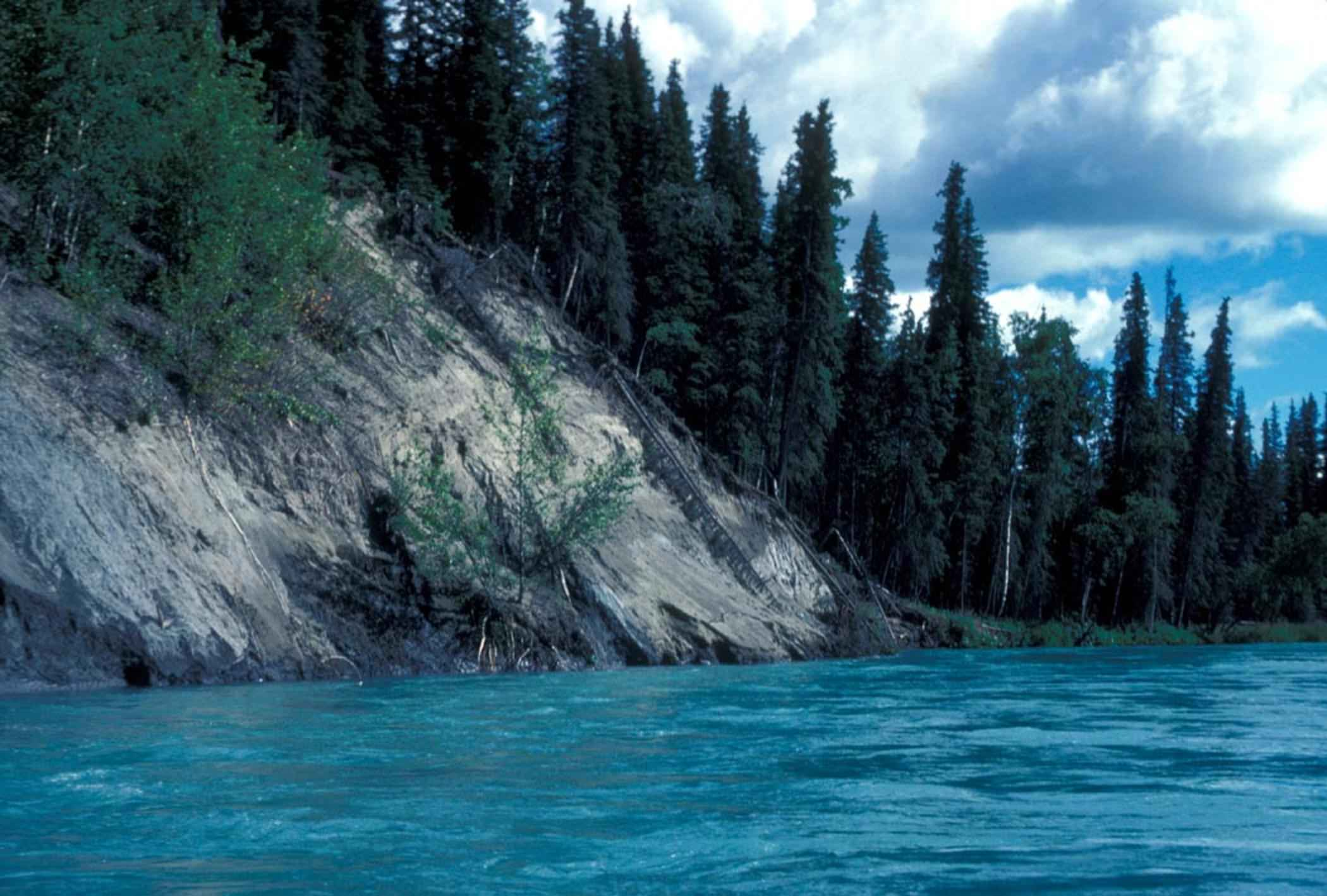 Image title: Kenai river riverbank Image from Public domain images website